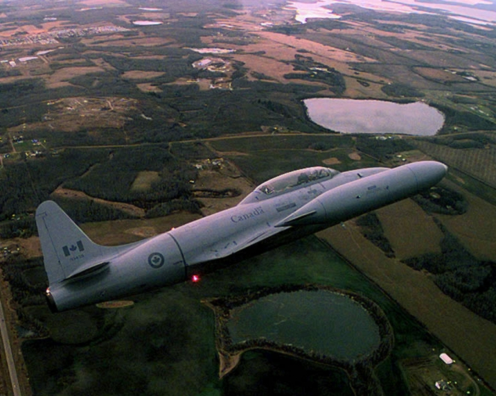 A Canadian Forces CT-133 Silver Star after takeoff from CFB Cold Lake, Alberta (USA). The CT-133s simulated the role of air launched cruise missiles during the joint U.S.-Canadian exercise "Amalgam Warrior", that tested the response of the air intercept and air defense capabilities.